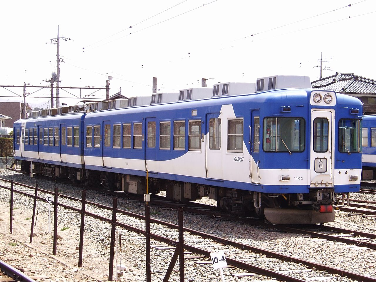 EMU of Fujikyu,Type 1000